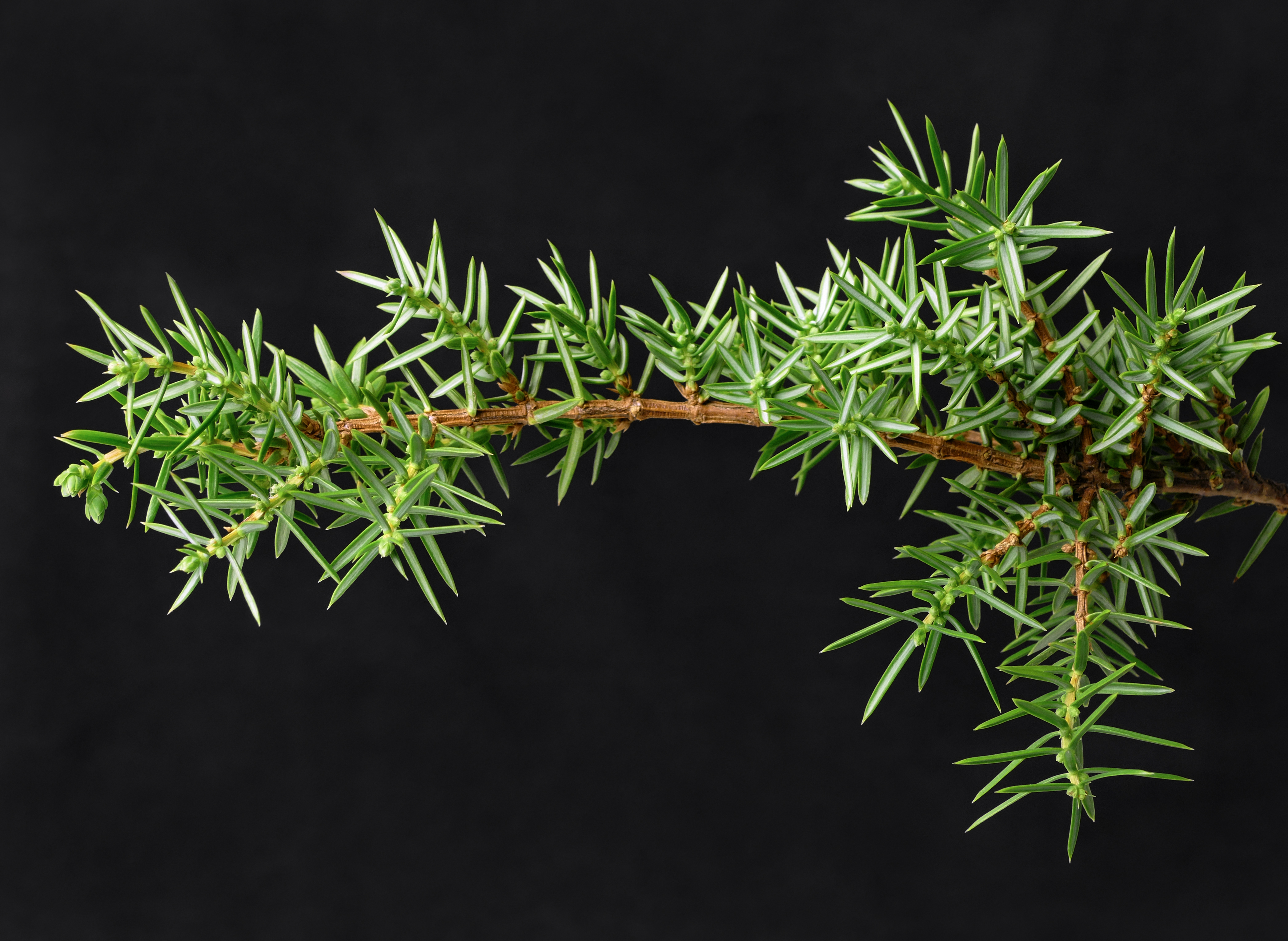 Young soft juniper (Juniperus communis) needles and shots at Gåseberg, Lysekil, Sweden. The full-grown needles on this juniper are about 8-10 mm long. Note: The black background is not digitally added, it is my black jacket which I used to get a clean background.